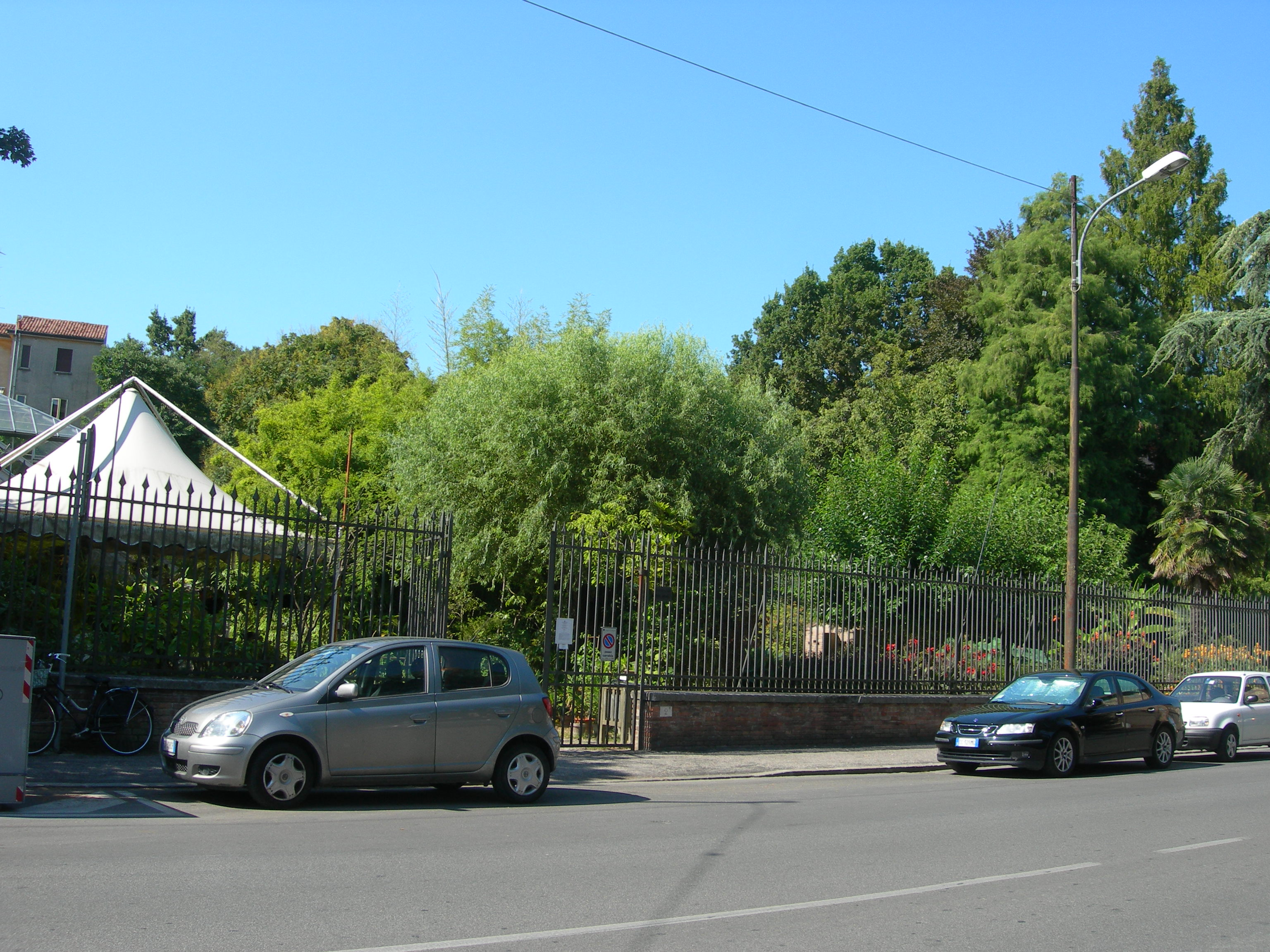 Botanical Garden Entrance